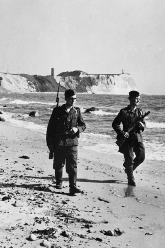 GDR Border Police personnel patrolling on a beach at Cape Arkona, Rügen. 23 November 1956.